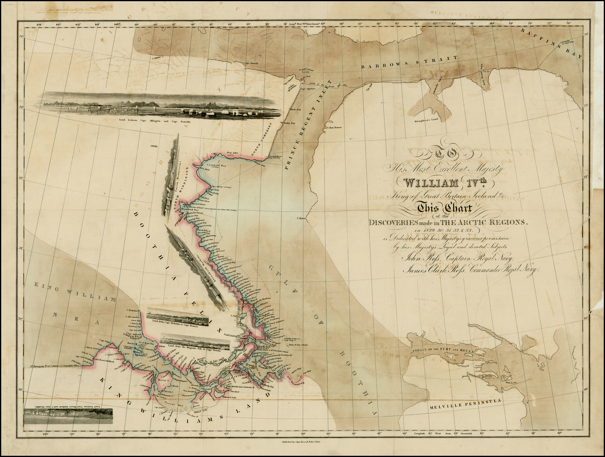 J. Ross, J. C. Ross: To His Most Excellent Majesty William IVth King of Great Britain Ireland &c. this Chart of the Discoveries Made in the Arctic Regions in 1829, 30, 31, 32 & 33 is Dedicated with his Majesty's gracious permission . . .